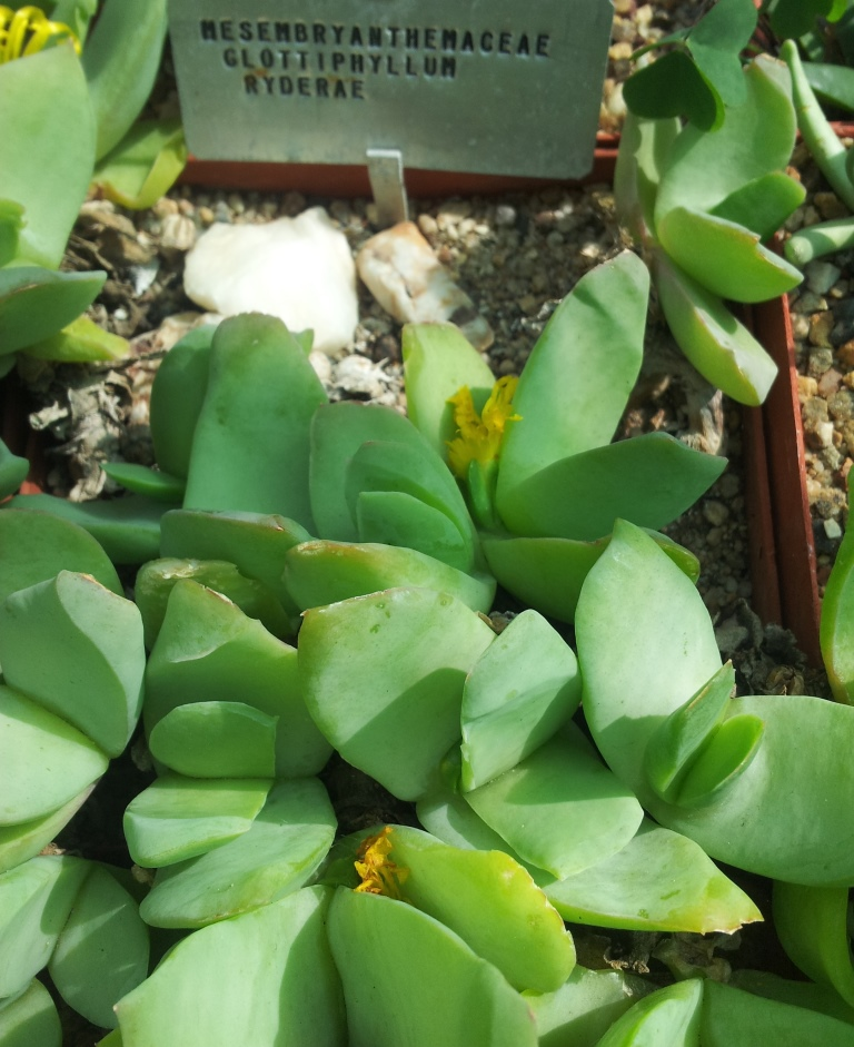 Glottiphyllum ryderae